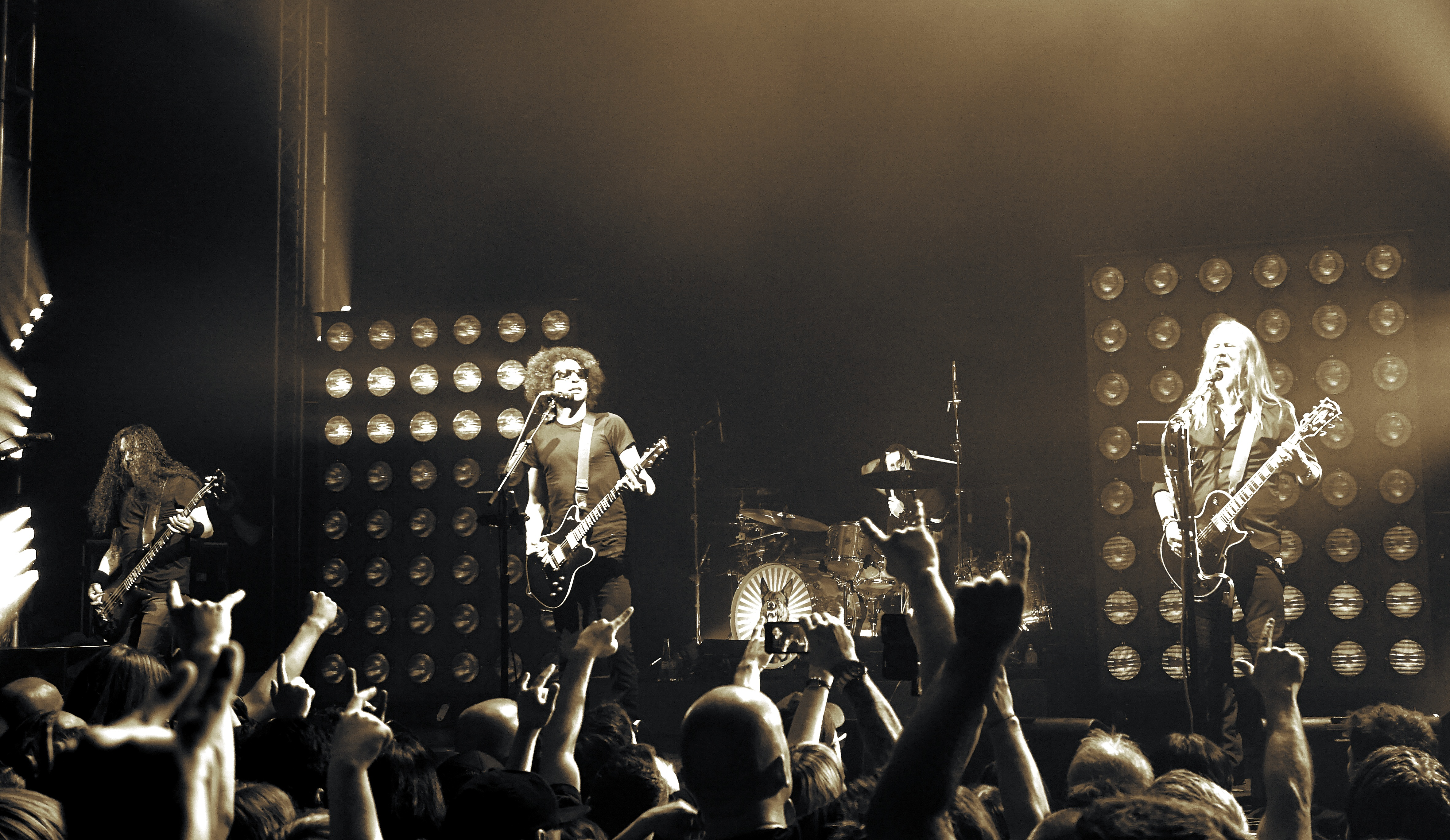 Alice in Chains performing in Leeds, England (16/08/2018)